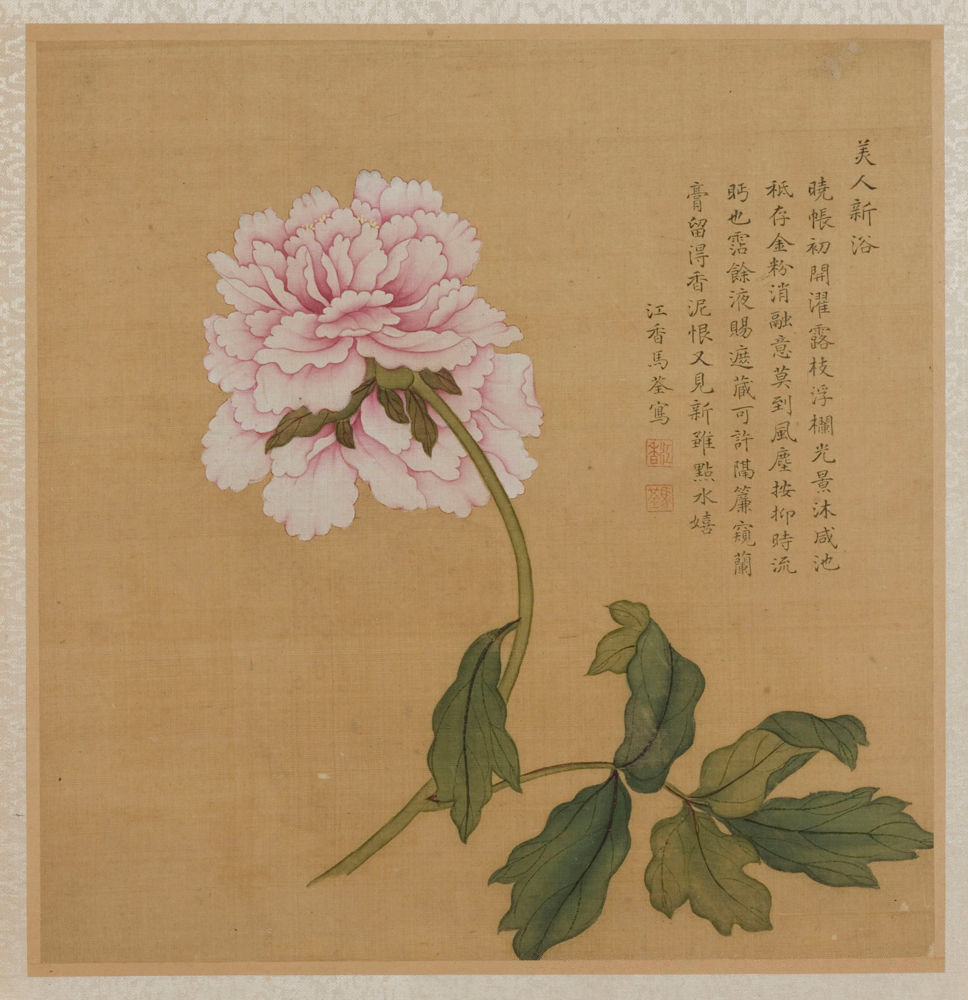 Colored Flower, Ma Quan, Shenzhen Museum